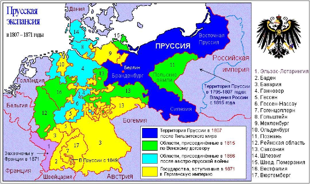 Expansion of Prussia in Russian